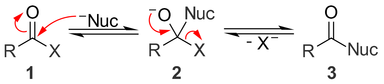 A general mechanism for base catalyzed nucleophilic acyl substitution. In the mechanism, "X" represents a leaving group and "Nuc" represents a nucleophile.